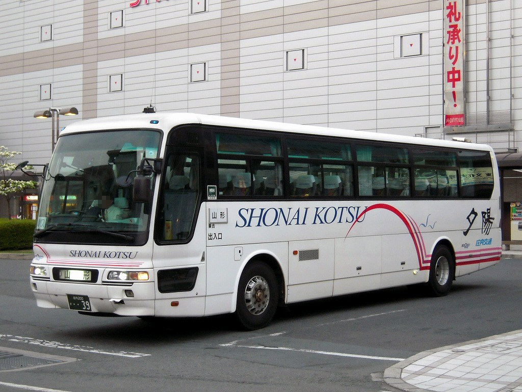 Shonai Kotsu Mitsubishi Fuso Aero Bus (KL-MS86MP) for Highwaybus Sakata,Tsuruoka-Yamagata